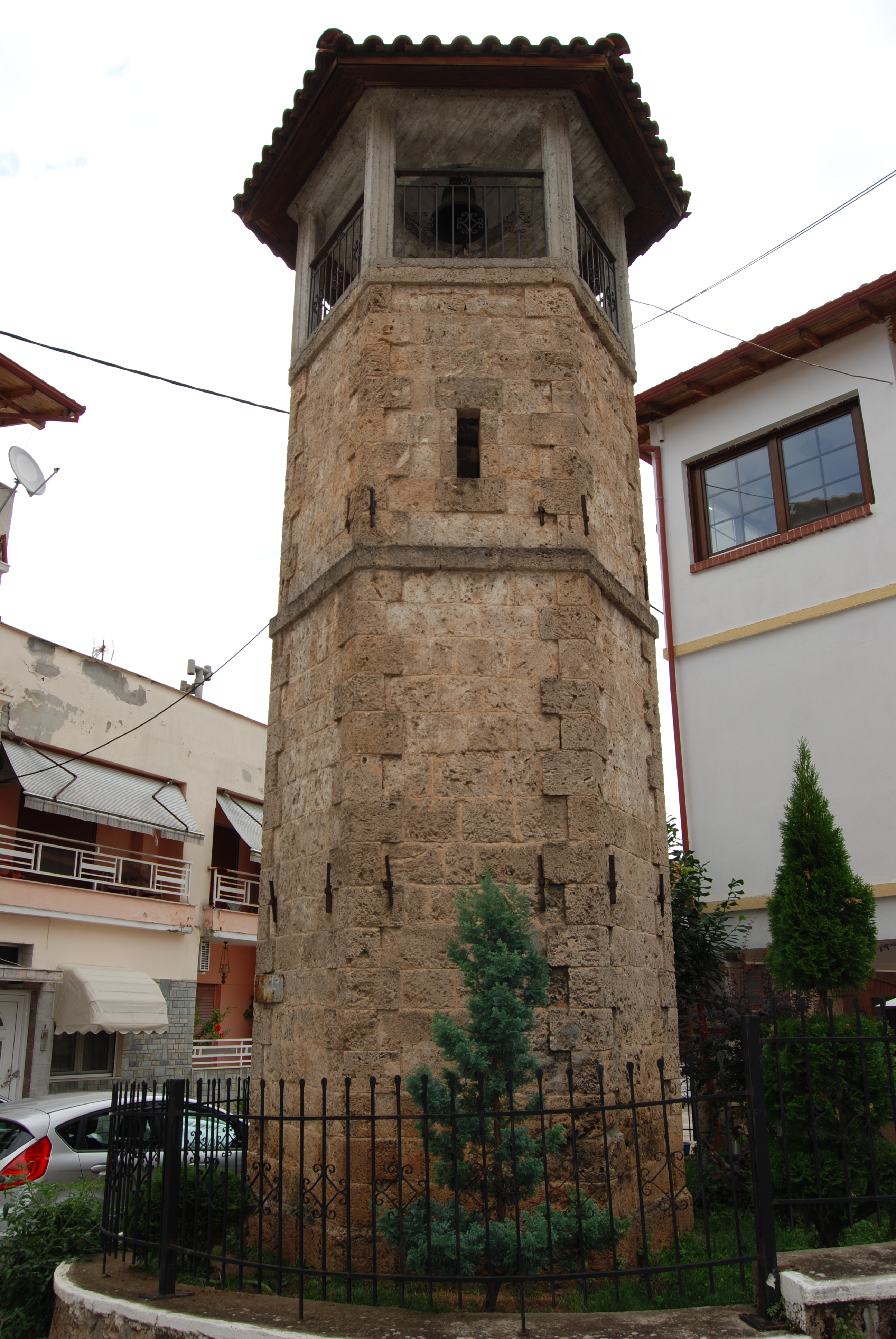 Buildings in Naousa